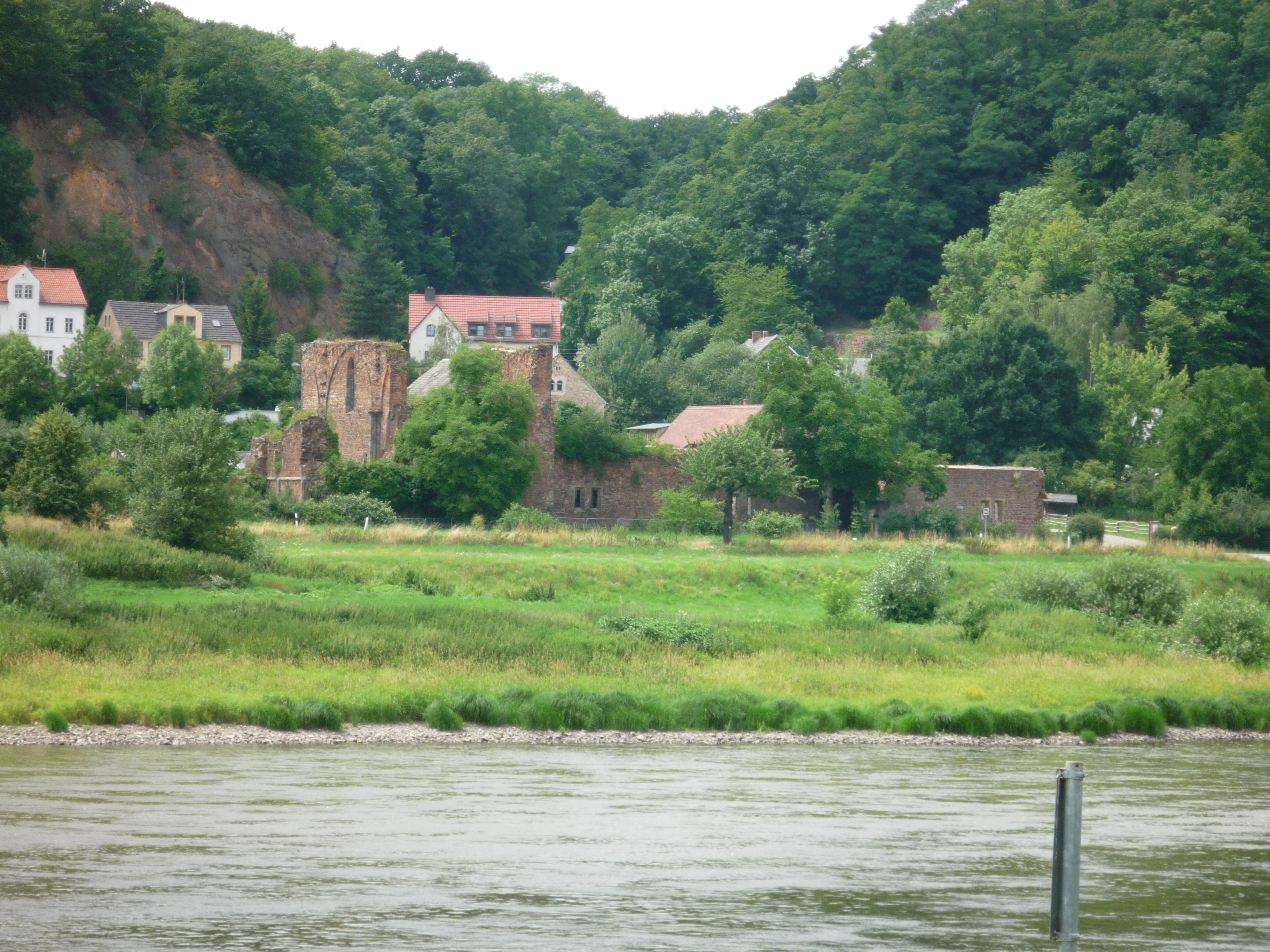 Remains of cloister Heilig Kreuz in Meißen